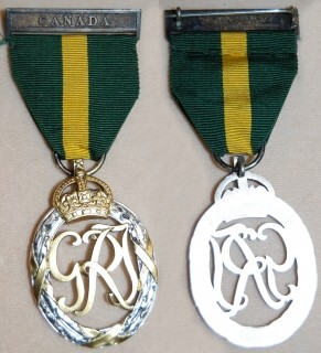 The first King George VI version of the Efficiency Decoration, with a "CANADA" bar-brooch